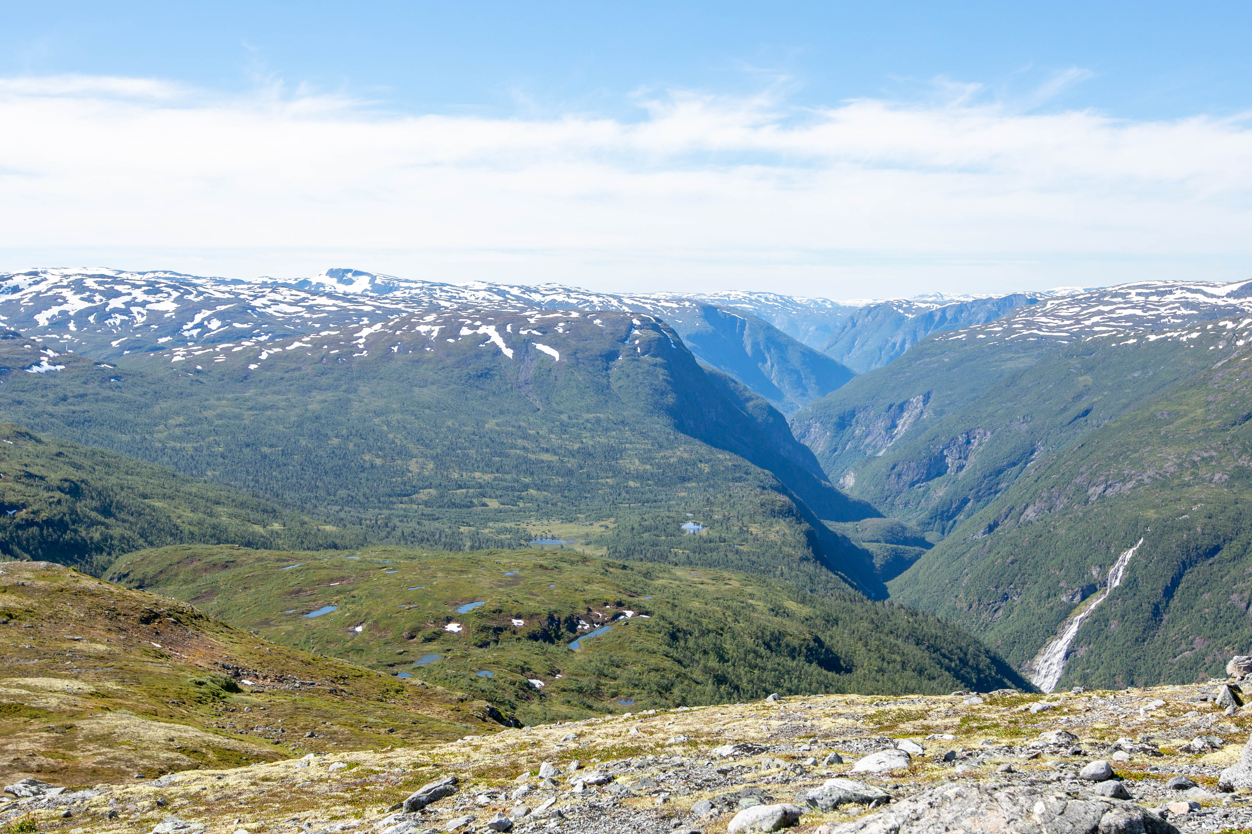 View of Utladalen in Jotunheimen in Norway